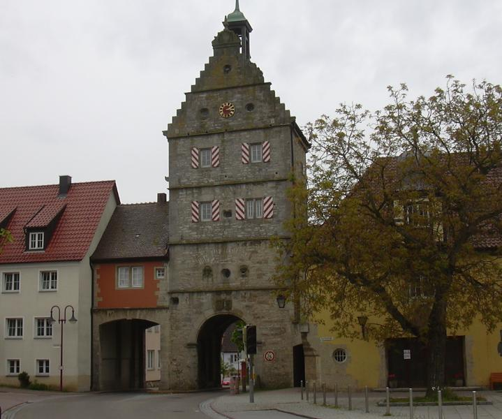 Old town gate in Ilshofen, Germany